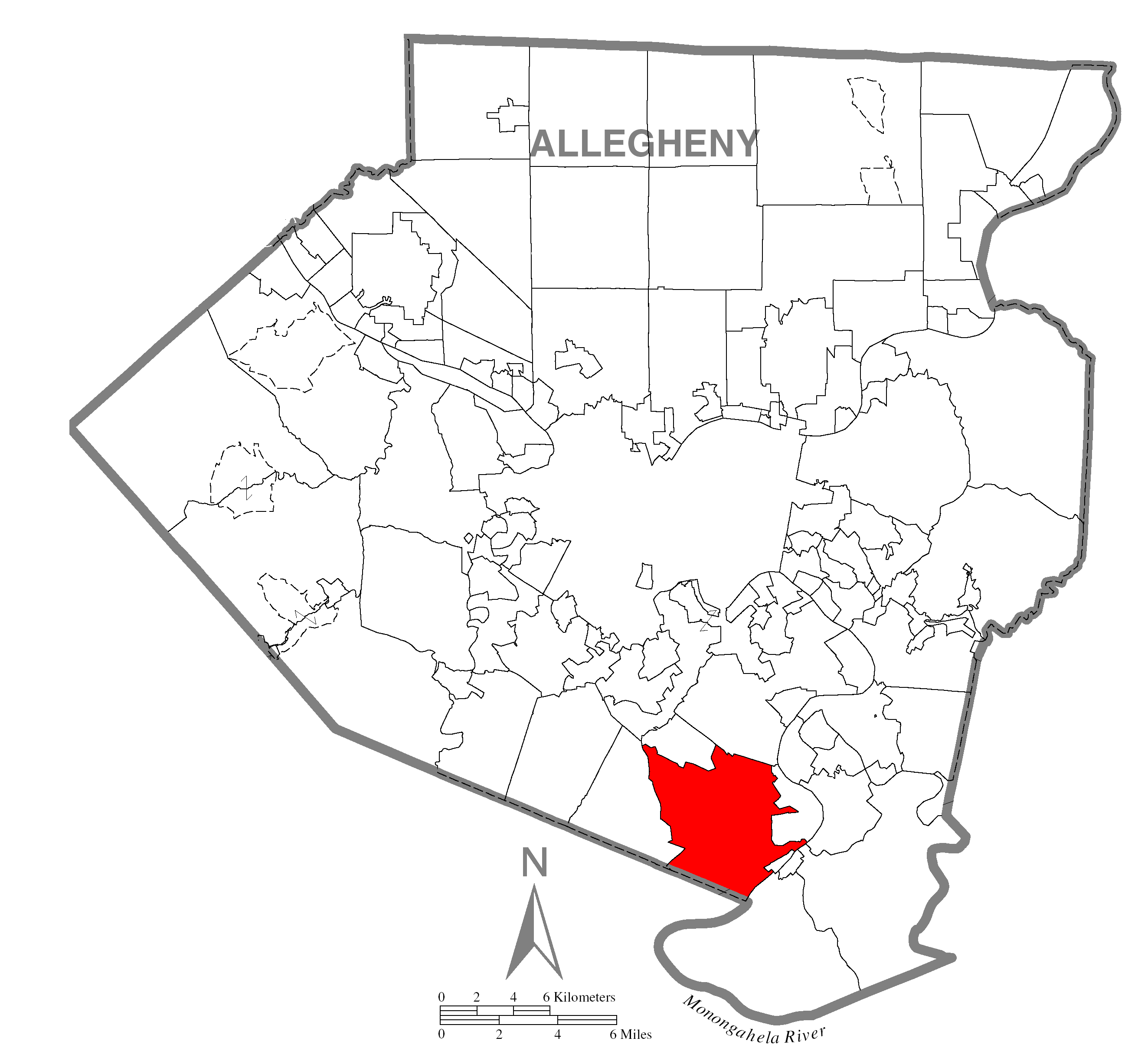 A map of Allegheny County showing Jefferson Hills, Pennsylvania (alternate) highlighted on the map.